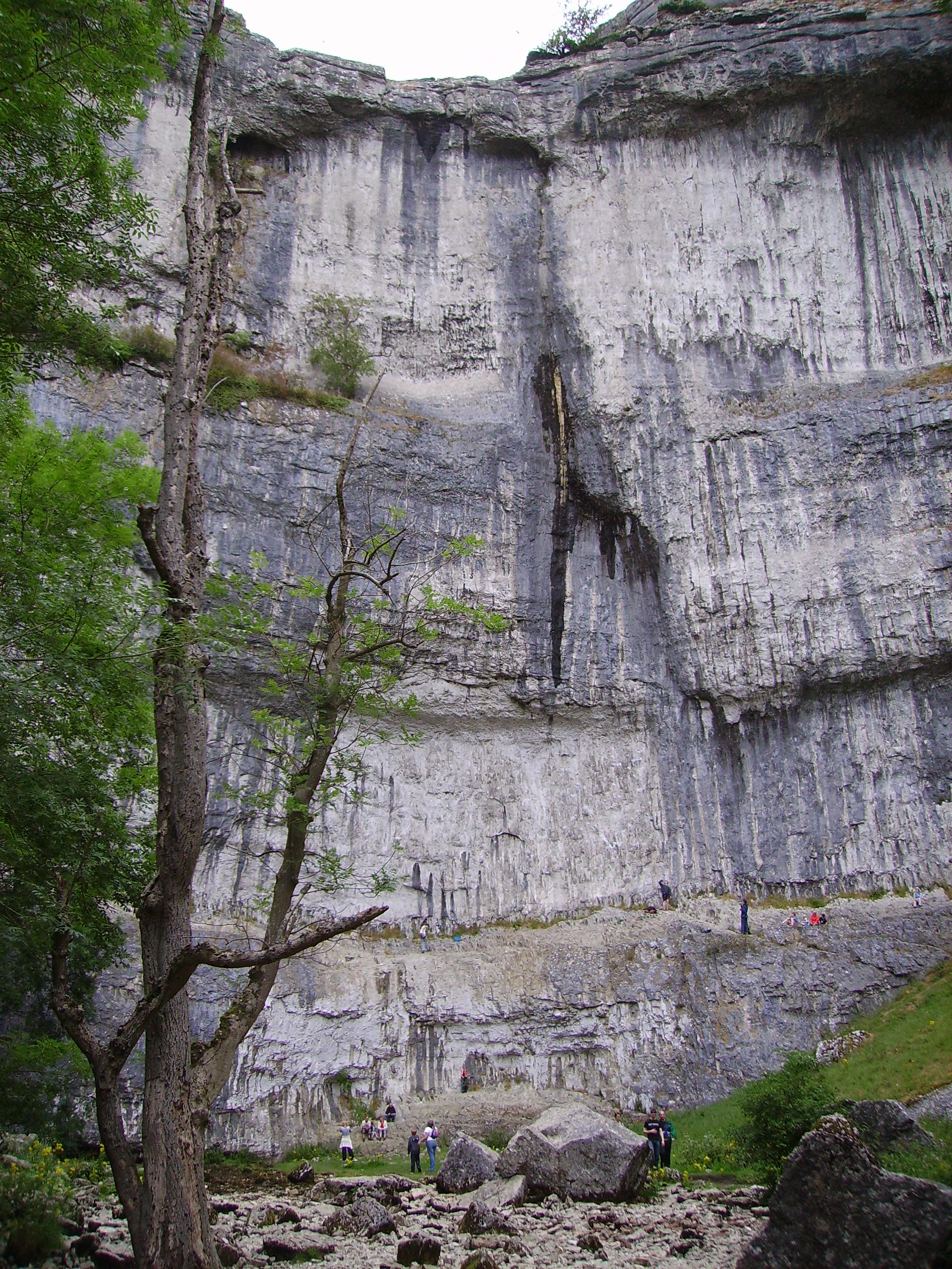 Malham Cove near Malham in the Yorkshire Dales, United Kingdom